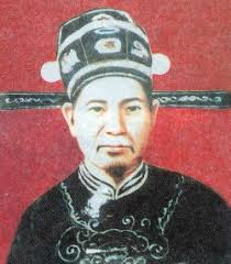 Hoàng Diệu (1829-1882) was the last governor of Hanoi before the French Colonial EraTiếng Việt: Hoàng Diệu (1829-1882) là một quan nhà Nguyễn trong lịch sử Việt Nam, người đã quyết tử bảo vệ thành Hà Nội khi Pháp tấn công năm 1882.